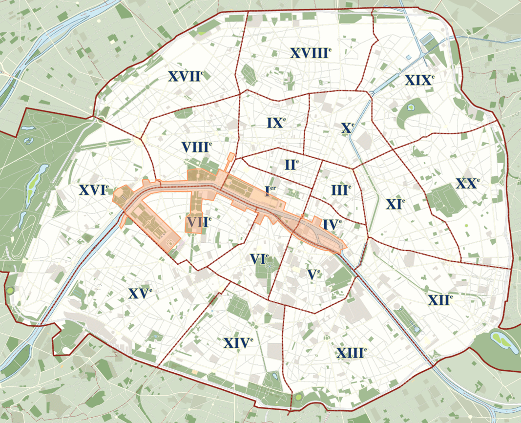 Boundaries of the UNESCO World Heritage Site "Paris, Banks of the Seine" transfered from